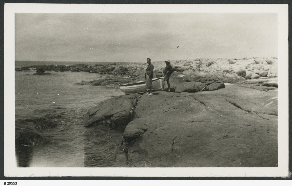 Eimma and Dempster on Dangerous Reef. Circa 1932